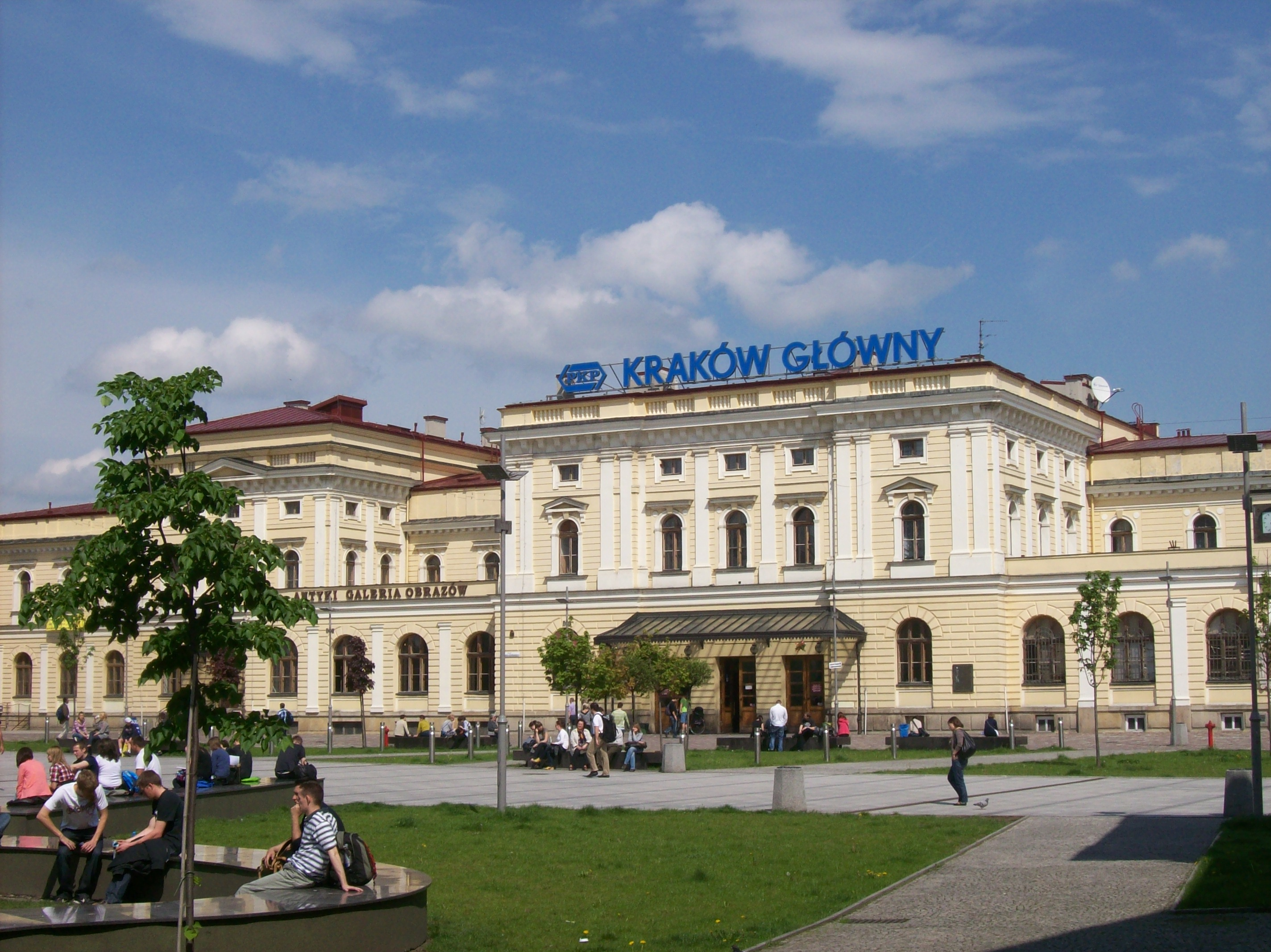 Main train station in Kraków.